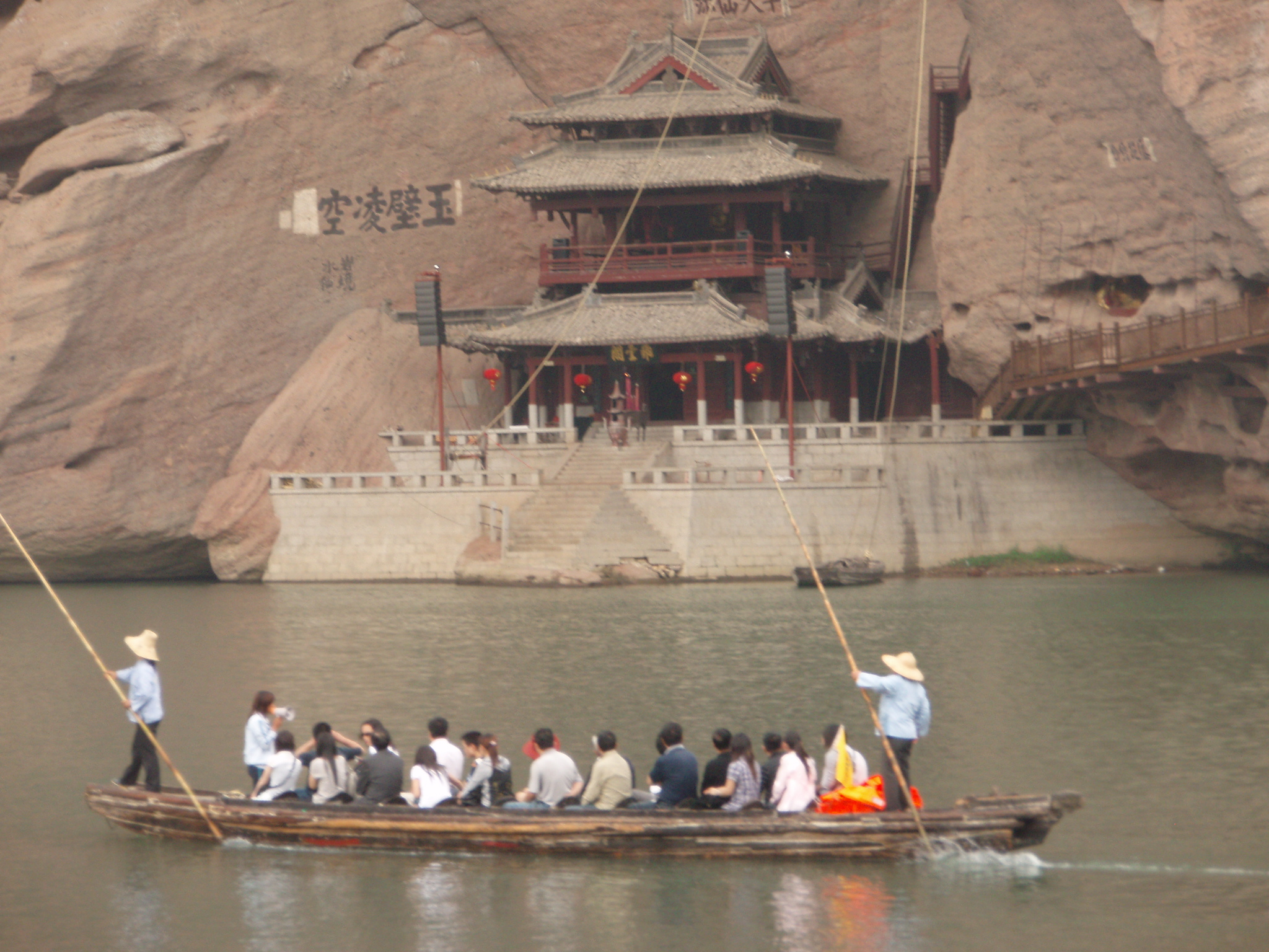 Tourists at Longhu Shan